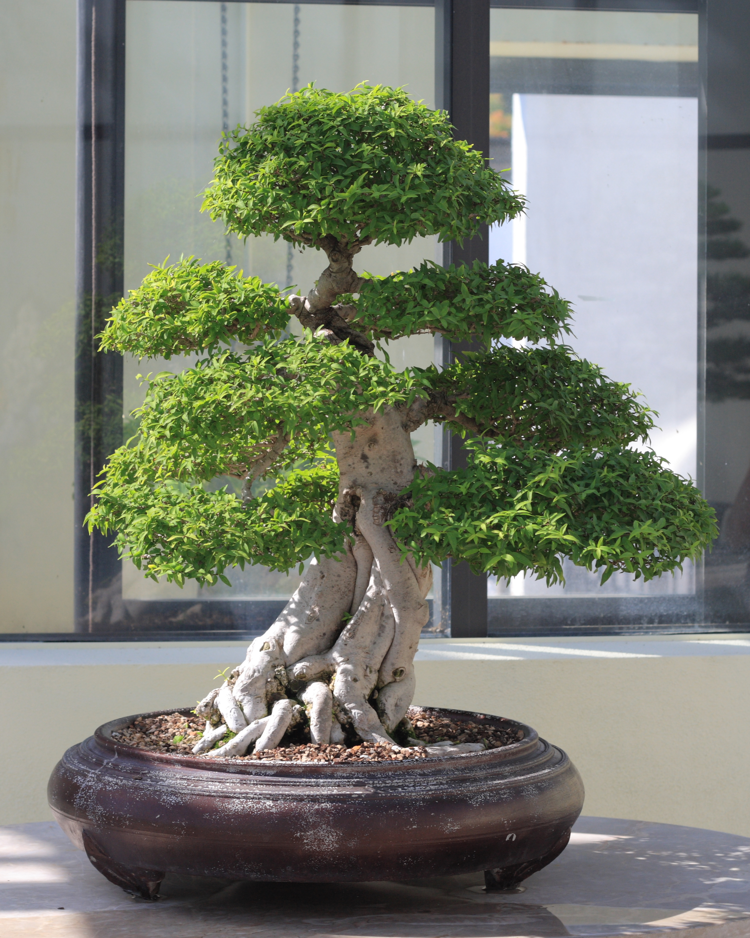 A Water Jasmine (Wrightia religiosa) bonsai, International Collection 711, on display at the National Bonsai & Penjing Museum at the United States National Arboretum. According to the tree's display placard, the age of the tree is unknown. It was donated by Tang Quoc Kiet.